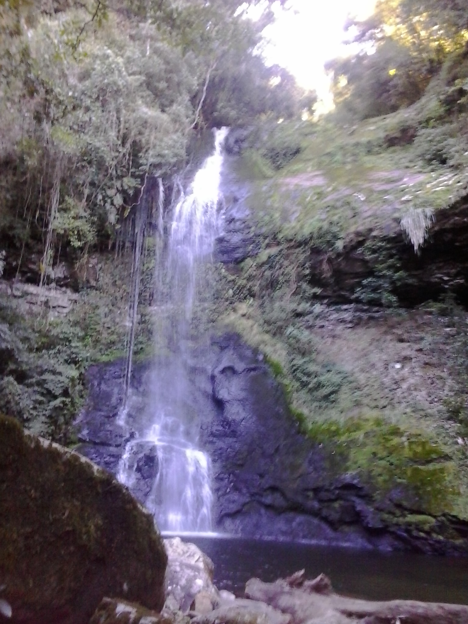 Waterfall with 20 m next to Rio dos Sinos wellspring